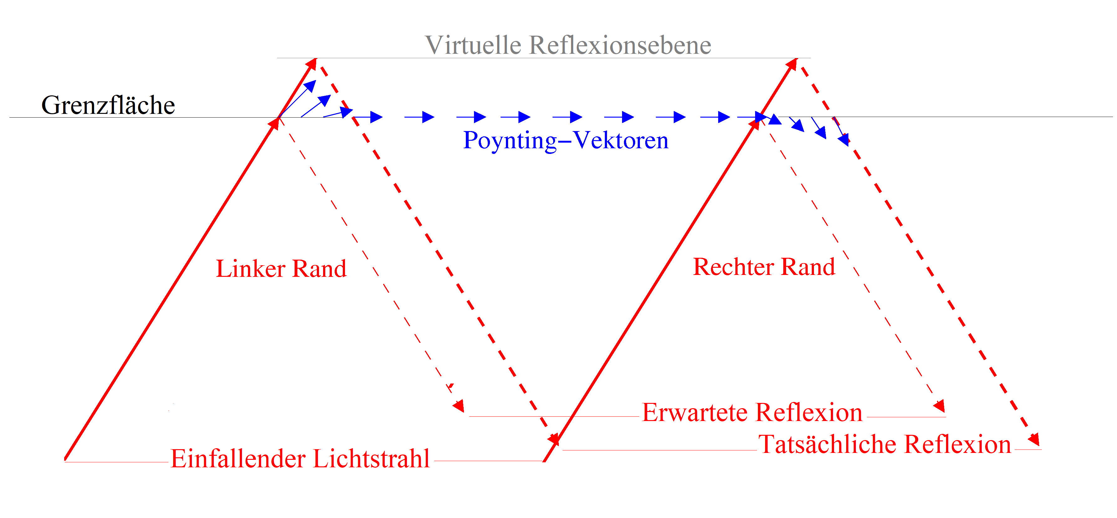 To illustrate the explanations of the Goos-Haenchen-Effect: Beam of light before and after refraction with Poynting-Vectors.